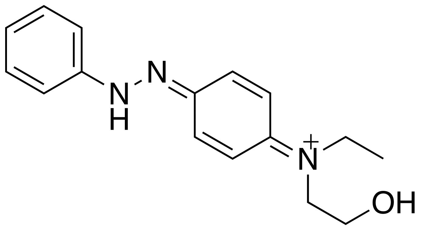 Description: Chemical structure of Solvent Yellow 124, hydrolyzed protonated form Author, date of creation: selfmade by Shaddack, 1 December 2005 Source: self-made Copyright: Public Domain (PD) Comments: b/w hires PNG; ChemDraw